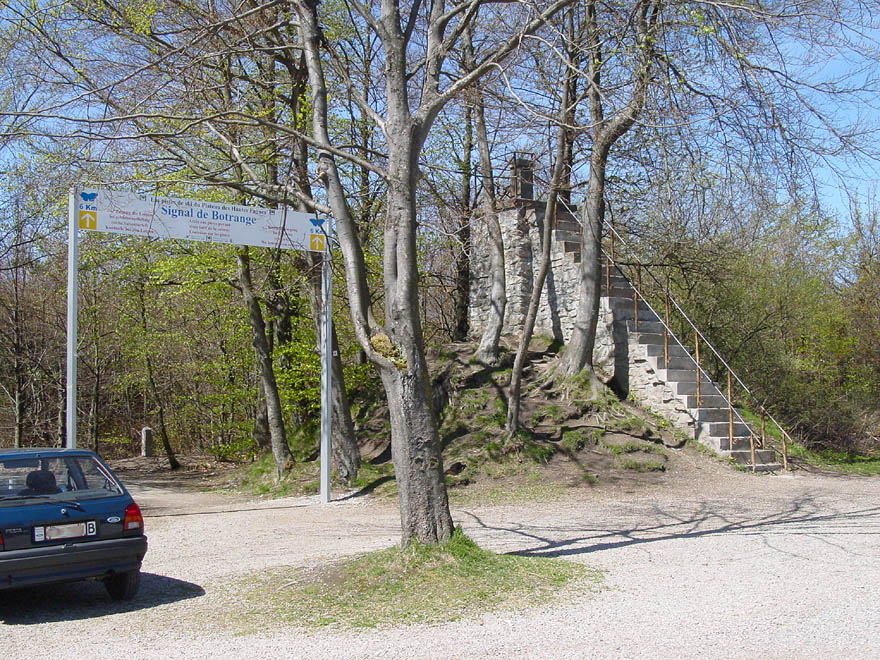 The 6m tower at the Signal de Botrange, taken by David Edgar on 2003-05-04.